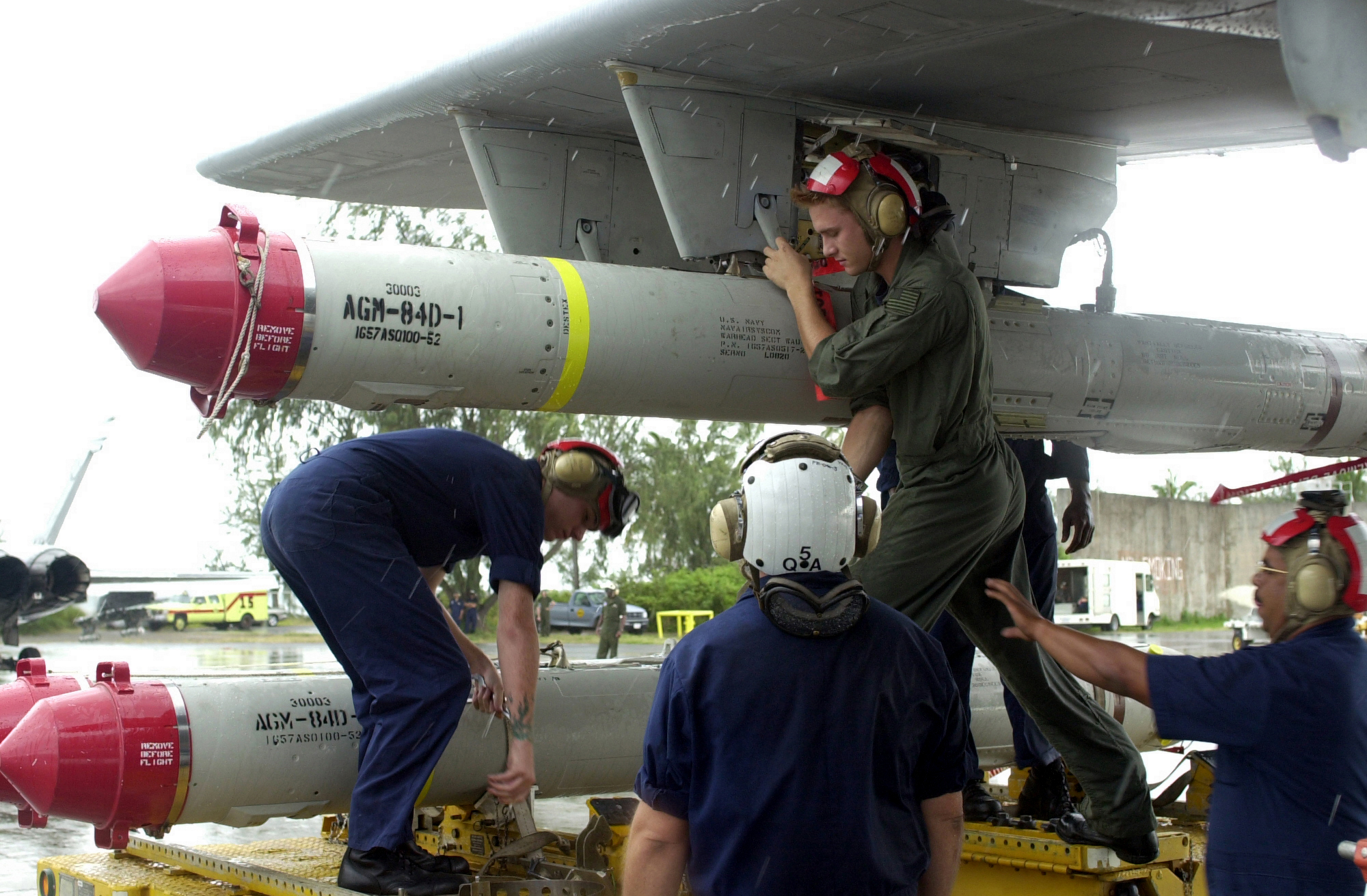 Kaneohe, HI (Jul. 5, 2002) -- Aviation Ordnanceman 1st Class Miguel Peterson from Luquillo, PR, guides Aviation Warfare Systems Operator Shane Kitterman from Copan, OK, on finding the center of gravity while loading an AGM-84 “Harpoon” missile under the wing of a P-3 “Orion” aircraft assigned to the “Golden Eagles” of Patrol Squadron Nine (VP-9). The missile will be used in a sinking exercise (SINKEX) during exercise “Rim of the Pacific” (RIMPAC) 2002. The purpose of RIMPAC 2002 is to enhance the tactical proficiency of the participating units in a wide array of combined operations at sea among the seven participating countries. The exercises also help build cooperation and foster mutual understanding between the participating nations. Among the countries participating this year are: Australia, Canada, Chile, Peru, Japan, the Republic of Korea and the United States. U.S. Navy photo by Photographer’s Mate 2nd Class Jane West. (RELEASED)